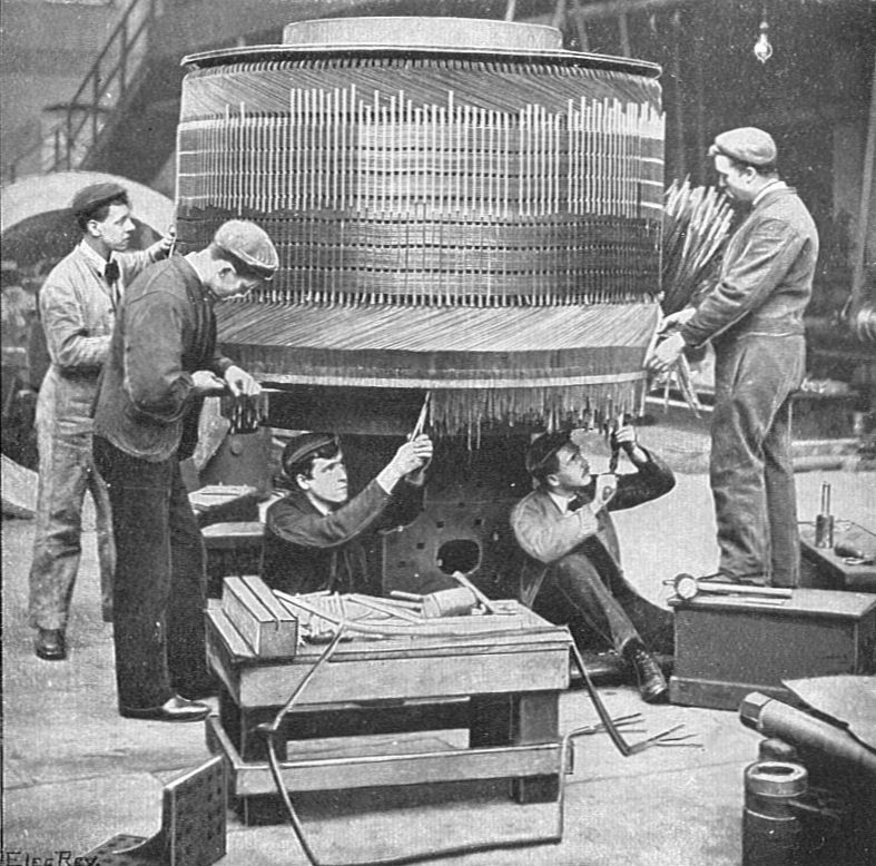 Armature winders at work, 2 (Rankin Kennedy, Electrical Installations, Vol III, 1903).jpg